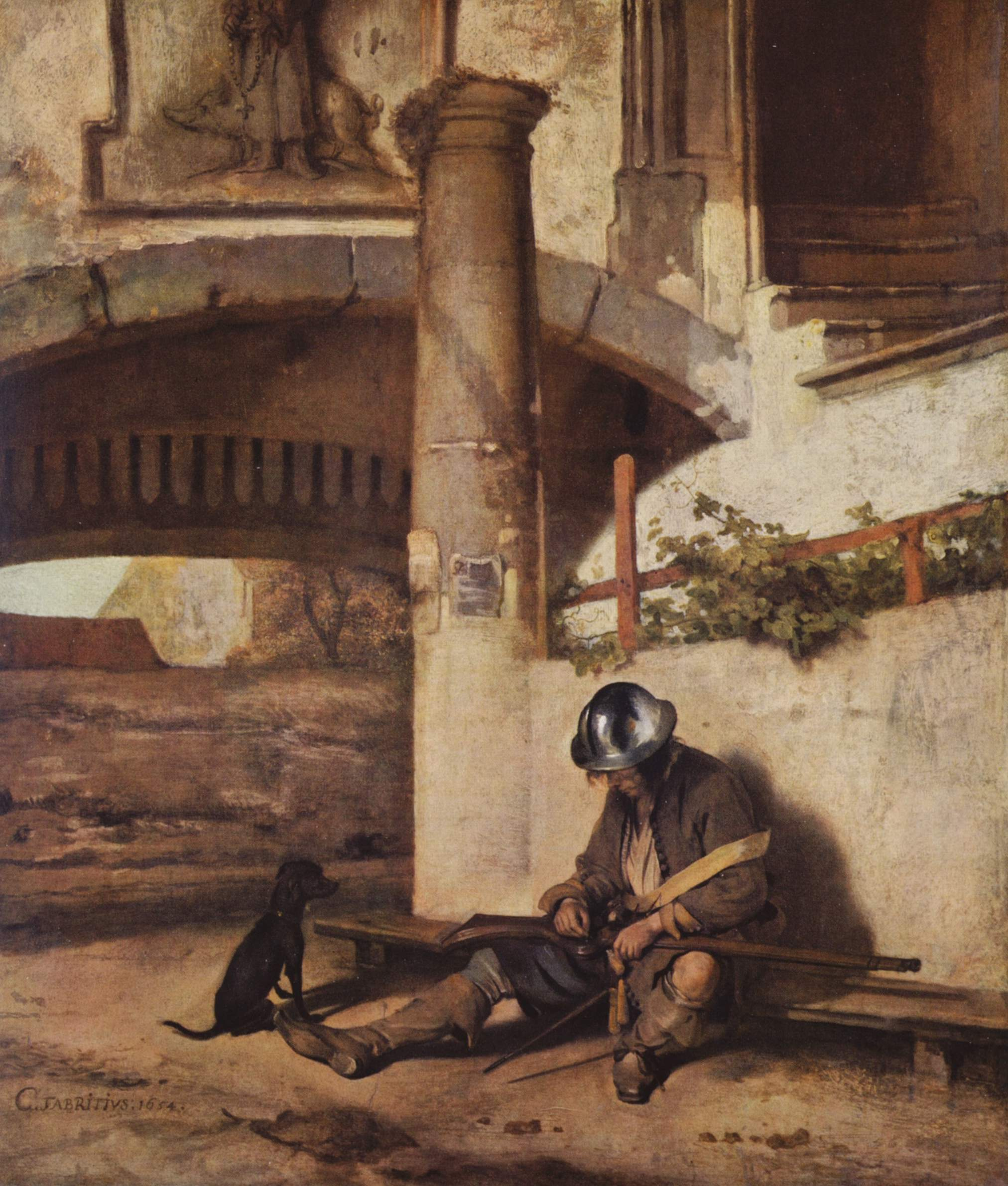 old version before restoration 2005